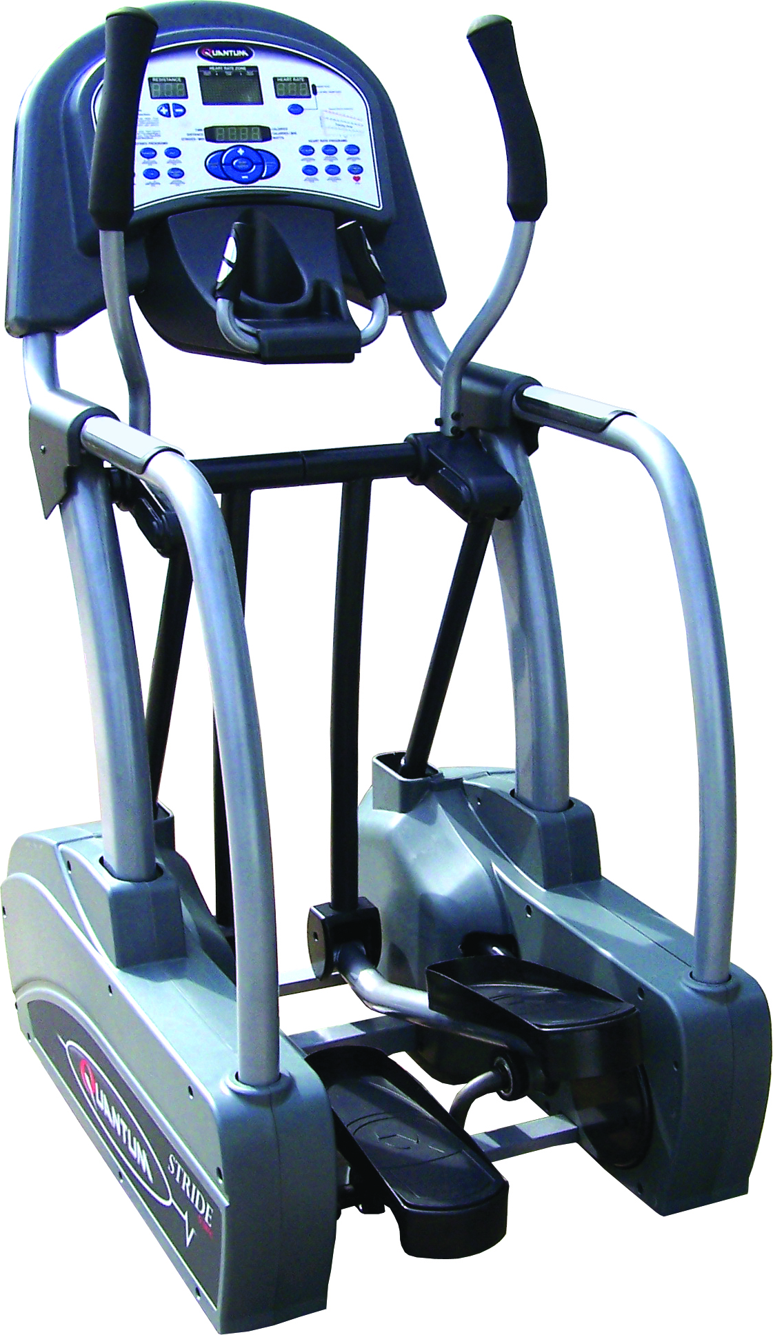 Mid drive fluid motion quantum elliptical trainer. A mid drive crosstrainer has the driving cranks centered under the user. A front drive elliptical hsa the driving cranks located at the front of the unit and the rear drive has the cranks at the rear of the unit. Houston Texas